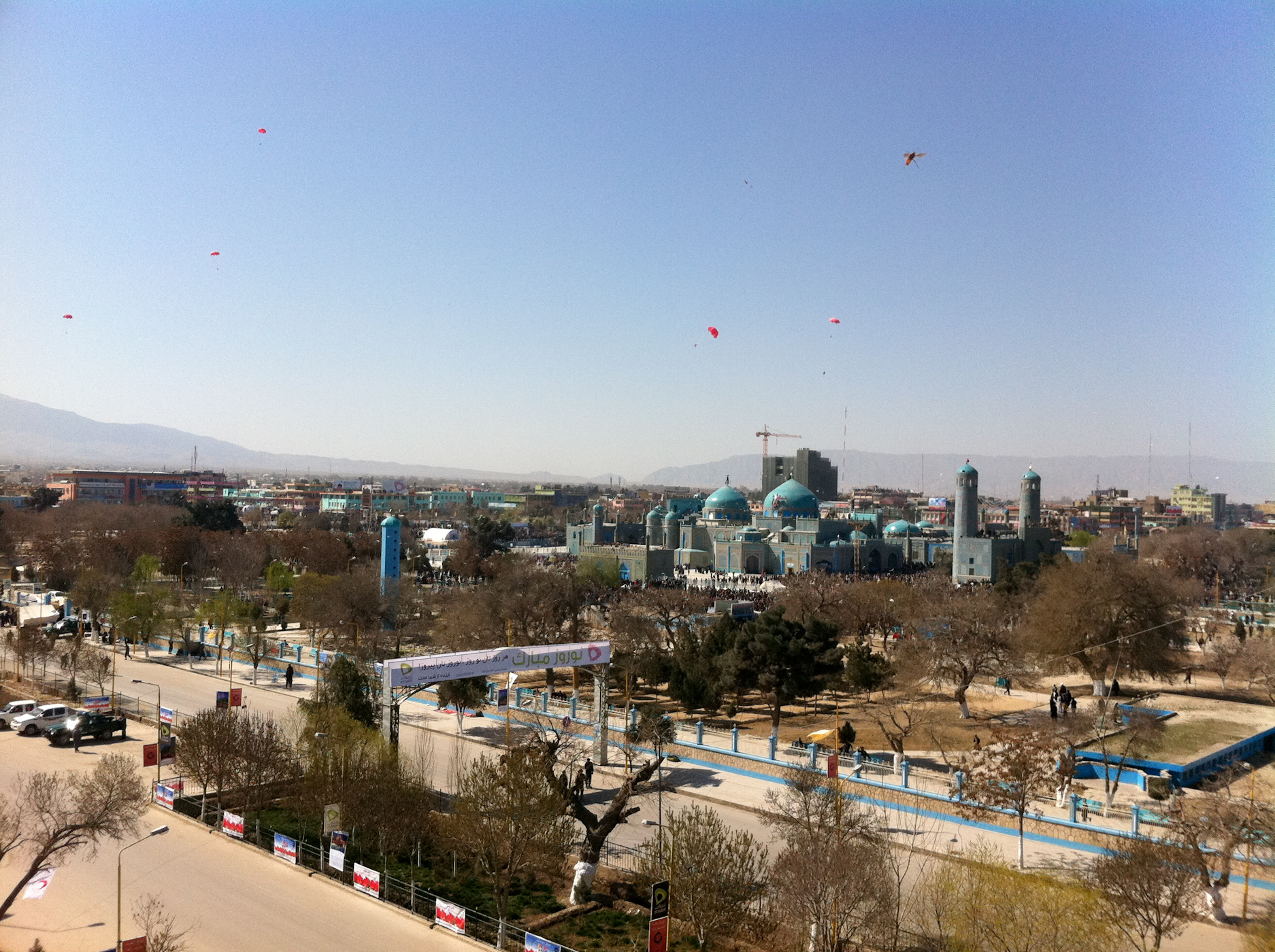 Nowruz or Newruz (meaning "New Day" of the Persian New year) celebration in Mazar-e Sharif, Afghanistan.